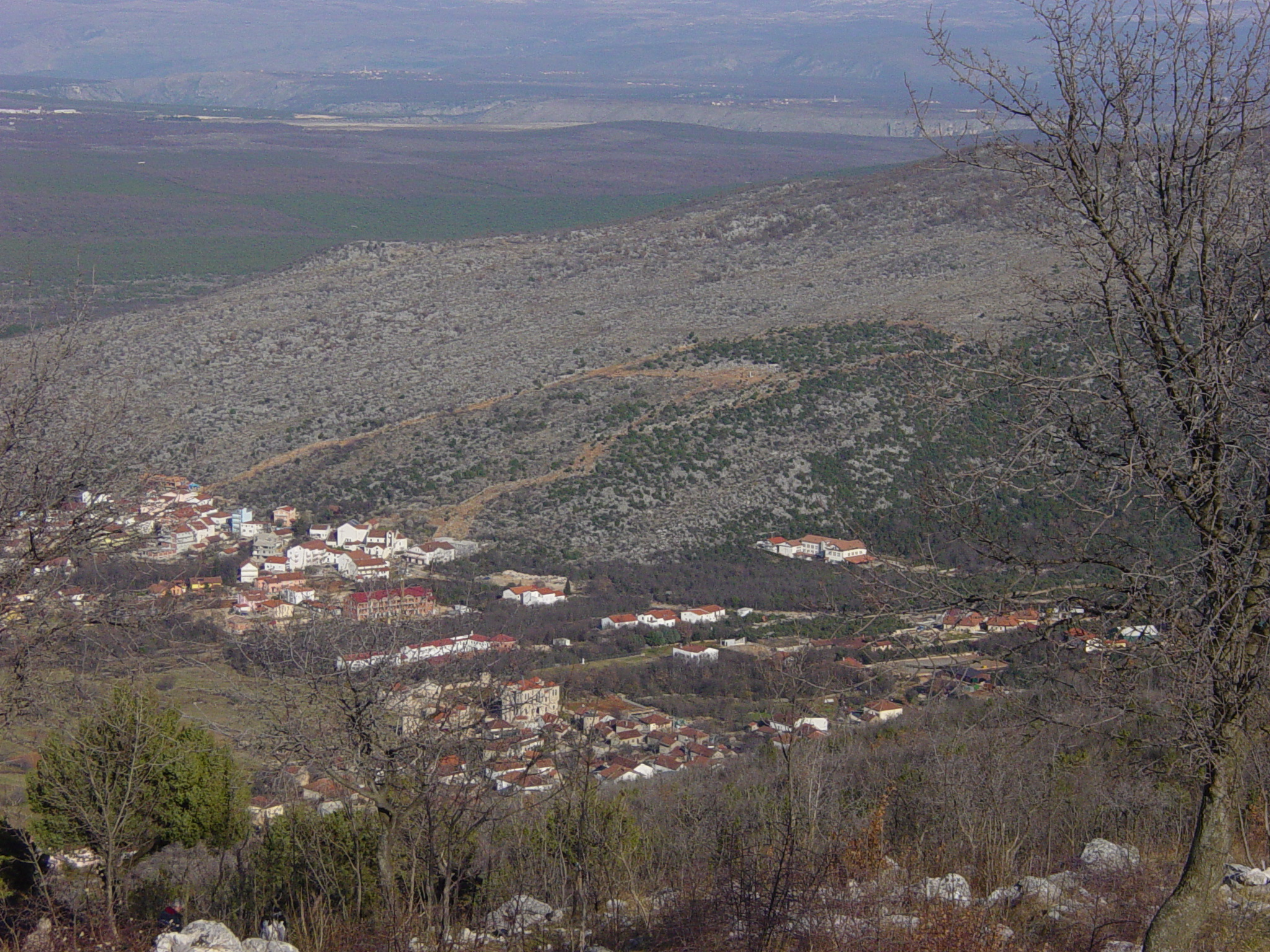 Picure of the hill of Podbrdo, taken from mount Krizevac.